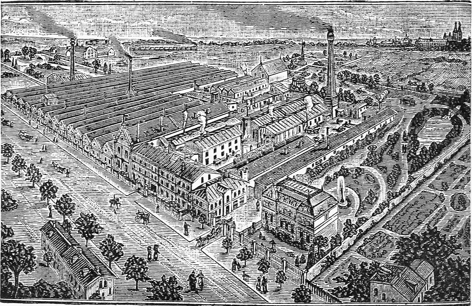 Title: Guide through Germany, Austria-Hungary, Italy, Switzerland, France, Belgium, Holland and England : souvenir of the North German Lloyd, Bremen Year: 1896 (1890s) Authors: Norddeutscher Lloyd Subjects: Publisher: Berlin : J. Reichmann & Cantor Text Appearing Before Image: Franz Clouth RHENISH RUBBER MANUFACTORY Cologne-Nippes. Text Appearing After Image: Manufacturer of: India-Rubber and Guttapercha articles for mechanical and other purposes. CABLES of all kinds and insulated wires for Telegraph, Telephone, Electric Light, Transmission of power etc. Water proof car and waggon sheets or covers, Horse Covers,TentS of all kinds for army and other purposes.